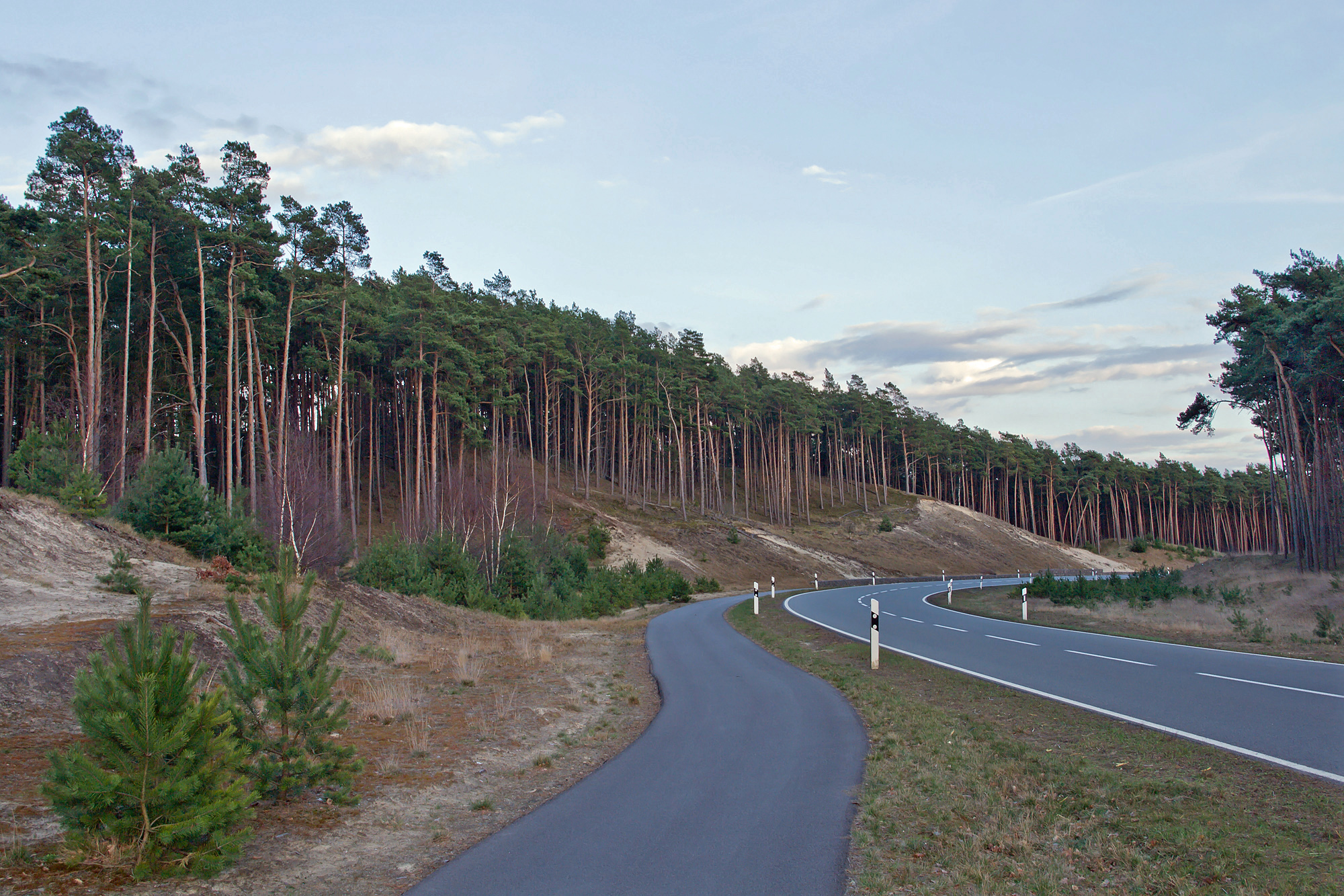 Dunes and pine forest "Carrenziener Heide" (Amt Neuhaus, district Lüneburg, northern Germany); beside the road B 195.